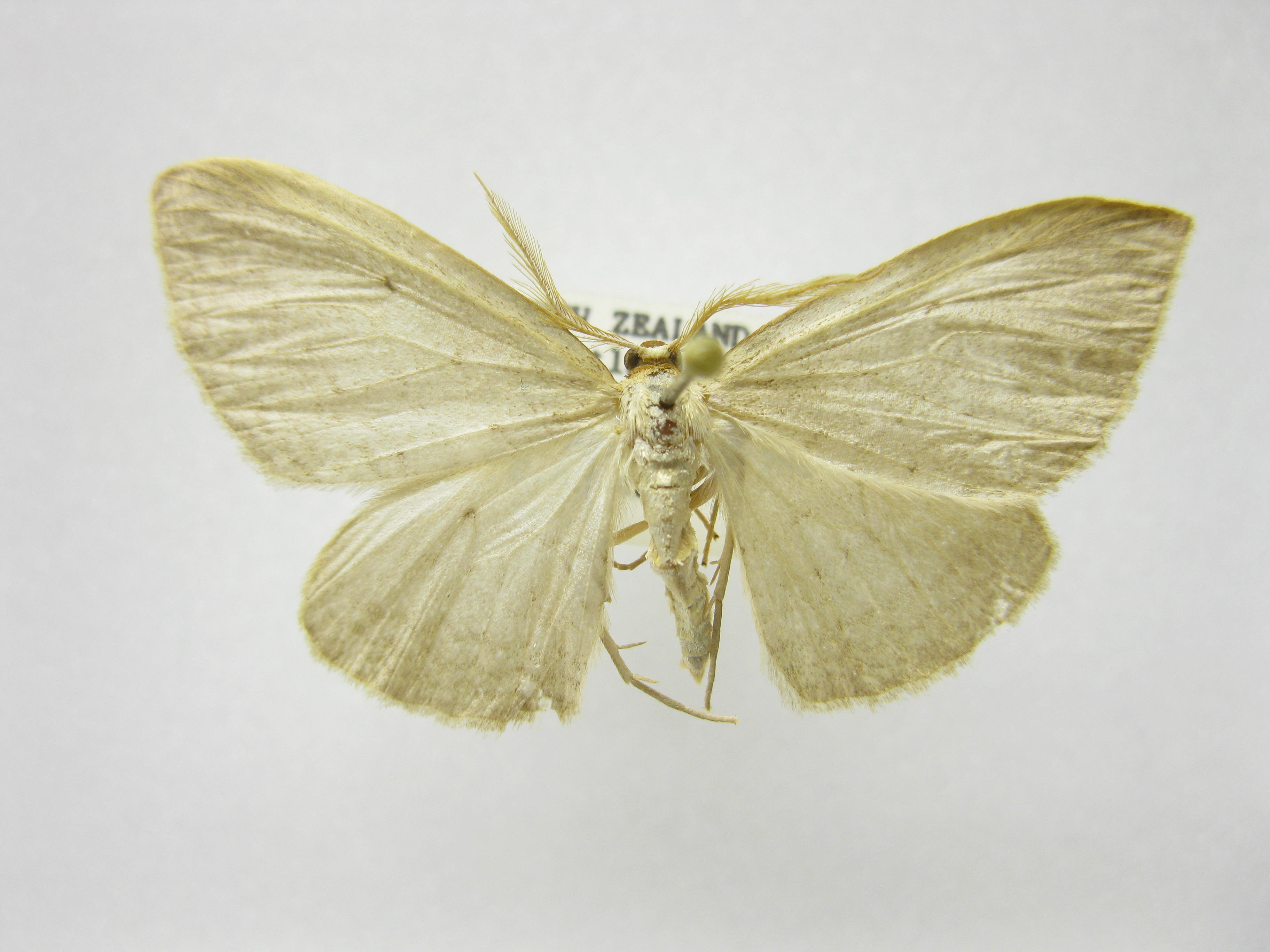 Specimen from the Lincoln University Entomology Research Museum